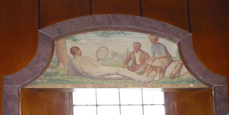 Oyster Bay U.S. Post Office Mural by prominent American artist illustrator and author [rnest Peixotto ]